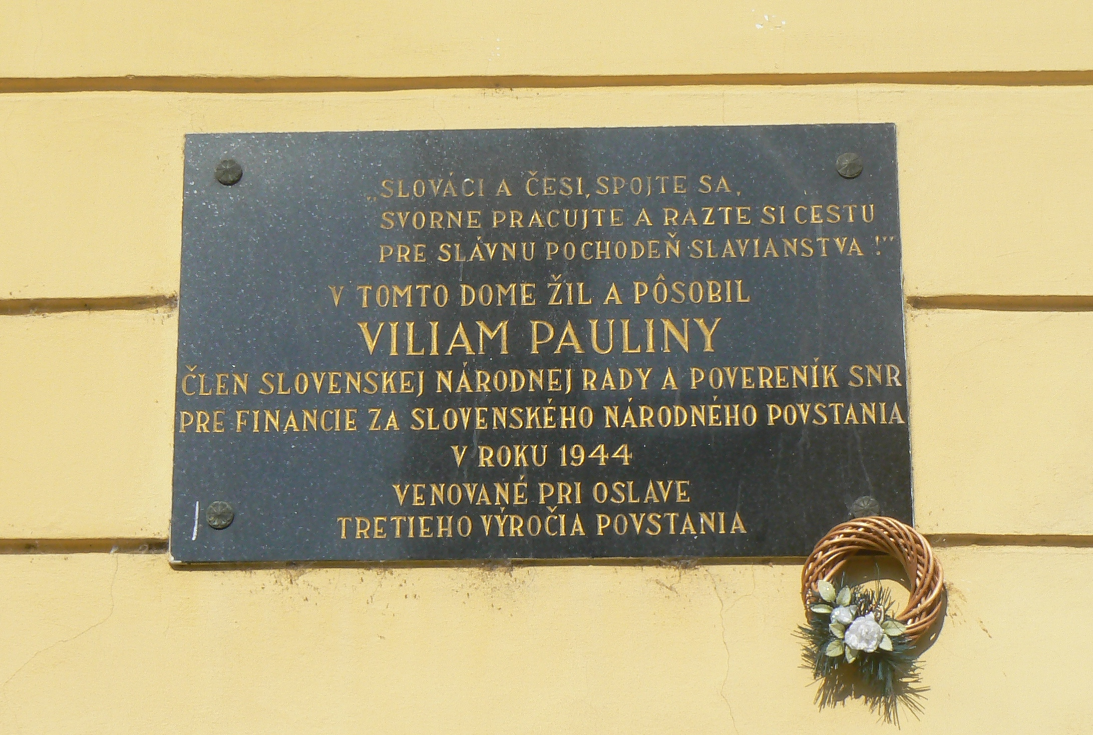 Memorial plaque of Viliam Pauliny, Banska Bystrica, Slovakia